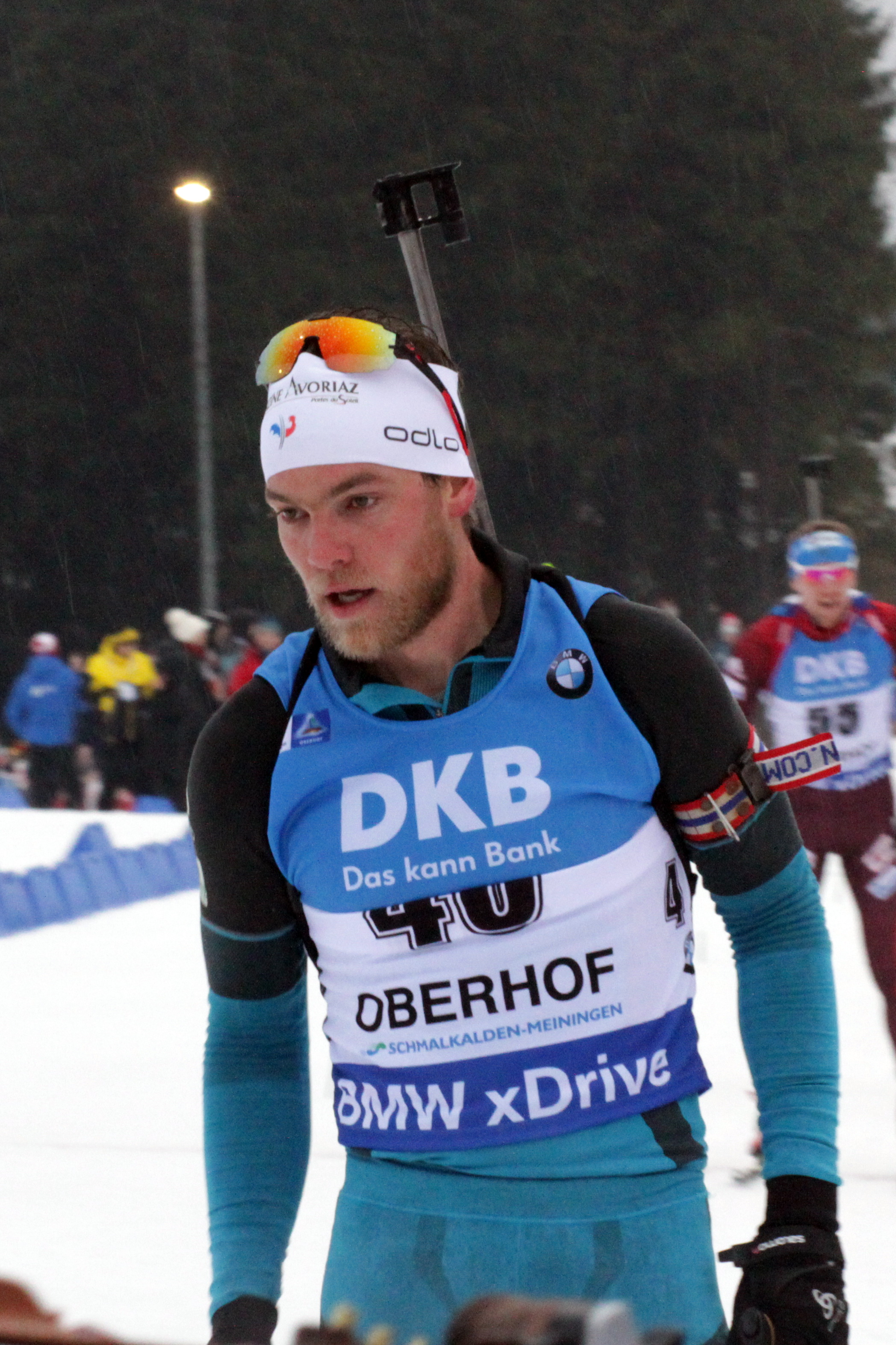 2018 Oberhof Biathlon World Cup - Pursuit Men